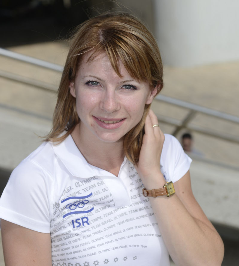 Valeria Maksyuta, 2012